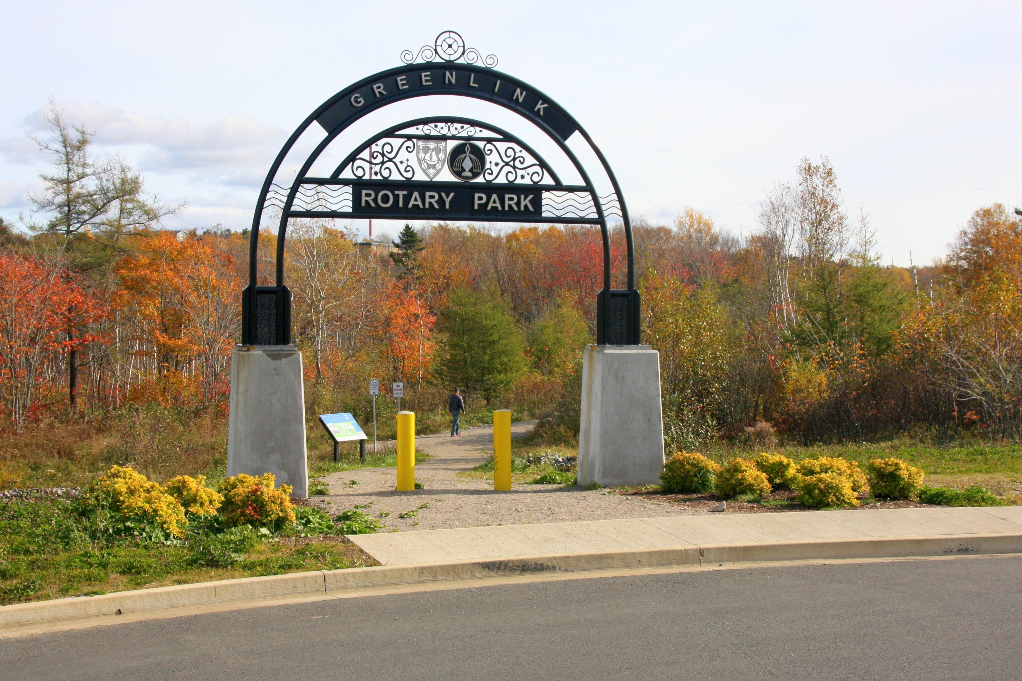 Rotary Park - GreenLink Trails, Membertou, NS - Maillard Street Entrance Greenlink Rotary Park Trail System is a Canadian urban park located in Sydney, part of Nova Scotia's Cape Breton Regional Municipality. Greenlink Trail System is a series of 2.5 to 3 metres (8 to 10 ft) wide crushed limestone paths suitable for walkers and cyclists. The gravel surfaces are not suitable for wheelchairs or strollers. The paths meander through a scenic natural area bordering Wentworth Creek (Reservoir Brook, also know as Sullivan's Brook) and a historic water reservoir with a stone dam and waterfall. The paths are not illuminated at night. Benches have been provided along the paths for resting, signs and interpretive displays for information. The trail system connects Sydney’s Shipyard and South End neighbourhoods to Membertou First Nation and the Cape Breton Regional Hospital. Two of the trails system progress from Shandwick Street and the St. Anthony Daniel Ball Park. Both trails converge with the trail from Rotary Drive, cross Churchill Drive, and extend to the Cape Breton Regional Hospital property.